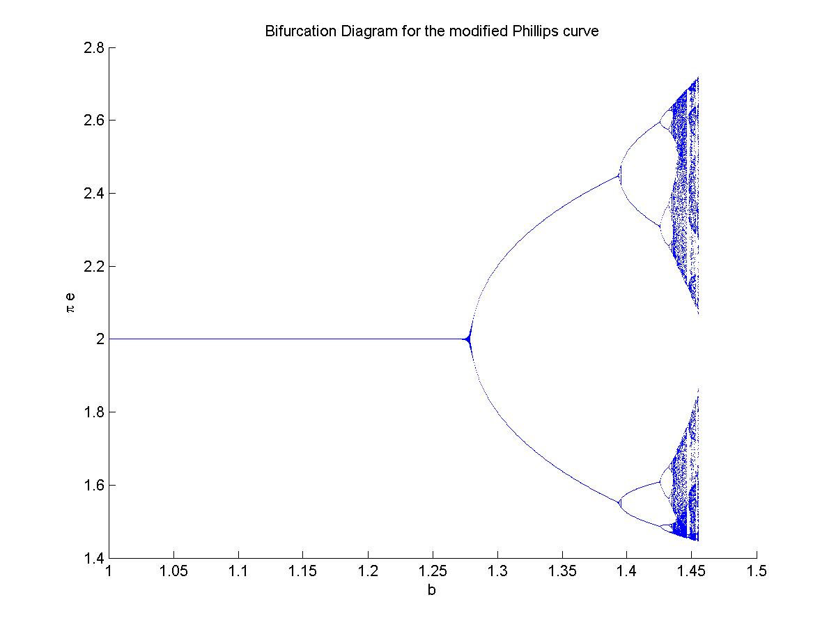 Bifurcation diagram for a modified phillips curve. Period doubling bifurcation.